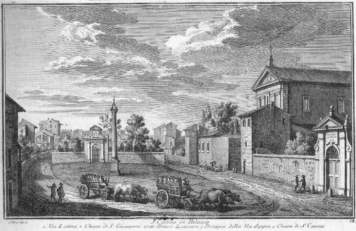 1) Via Latina; 2) S. Giovanni a Porta Latina; 3) Via Appia; 4) S. Cesareo in Palatio.